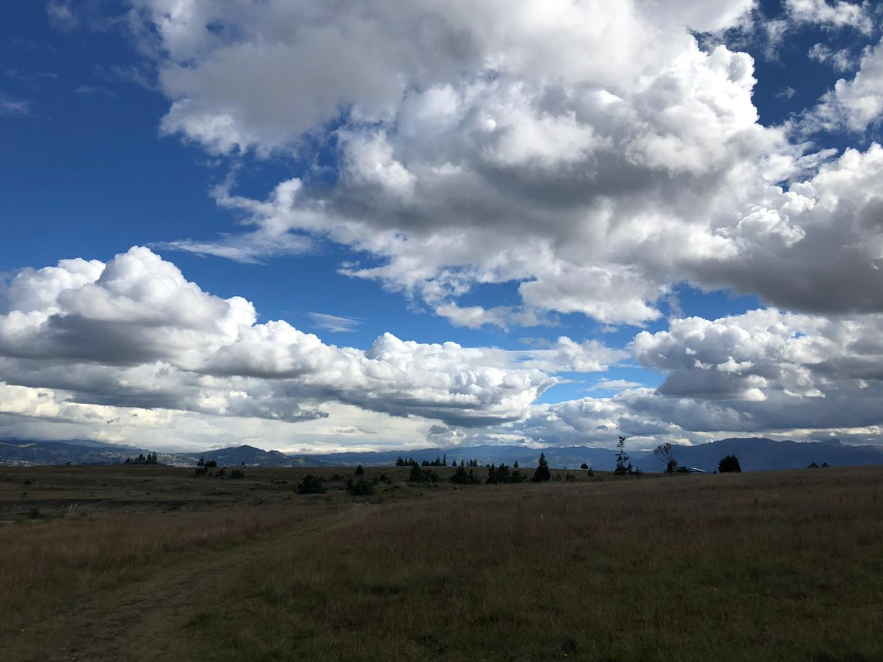 This picture is a Landscape from Cerro Pachamama also known as El Tablón.